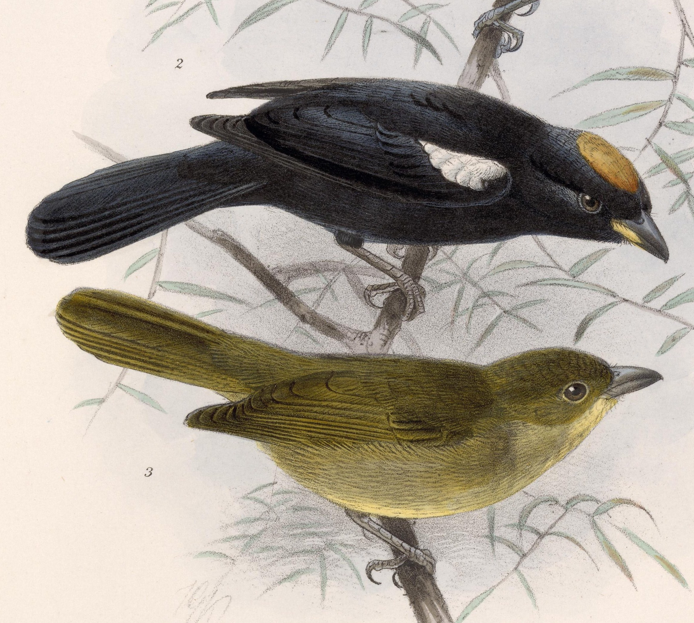 « Tachyphonus nitidissimus » = Tachyphonus luctuosus nitidissimus (Subspecies of White-shouldered Tanager) - male and female